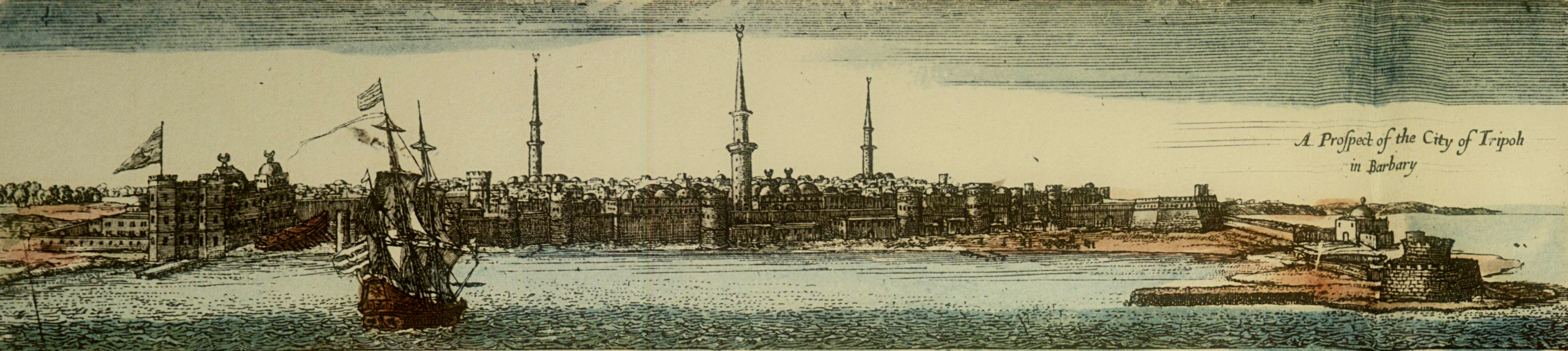 Elevation detail from the larger map: John Seller's "A Mapp of the Citie and Port of Tripoli in Barbary".